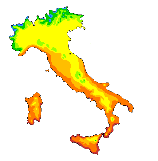 Climate map of Italy according to Mario Pinna (modified Wladimir Köppen climate classification)